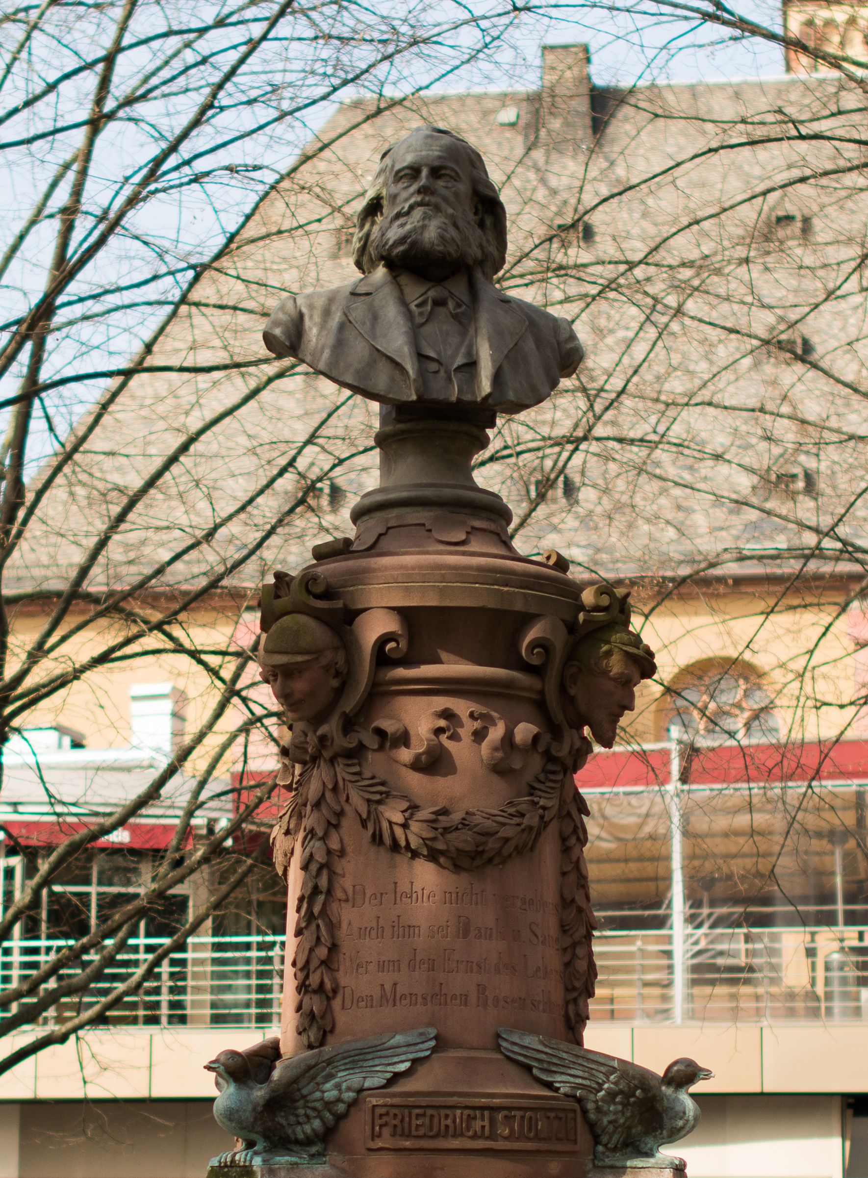 Frankfurt am Main, Head of the Stoltze fountain with bust of Hesse writer Friedrich Stoltze. Cultural monument of the city.